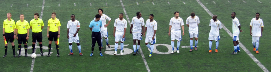 York Region Shooters line-up against North York Astros on May 27, 2012